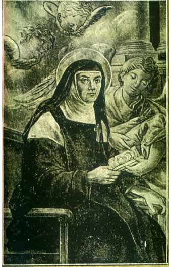 Engraving with Blessed Agnes of Beniganim or Josephine of Saint Agnes, Augustinian nun at Beniganim convent, Valencia